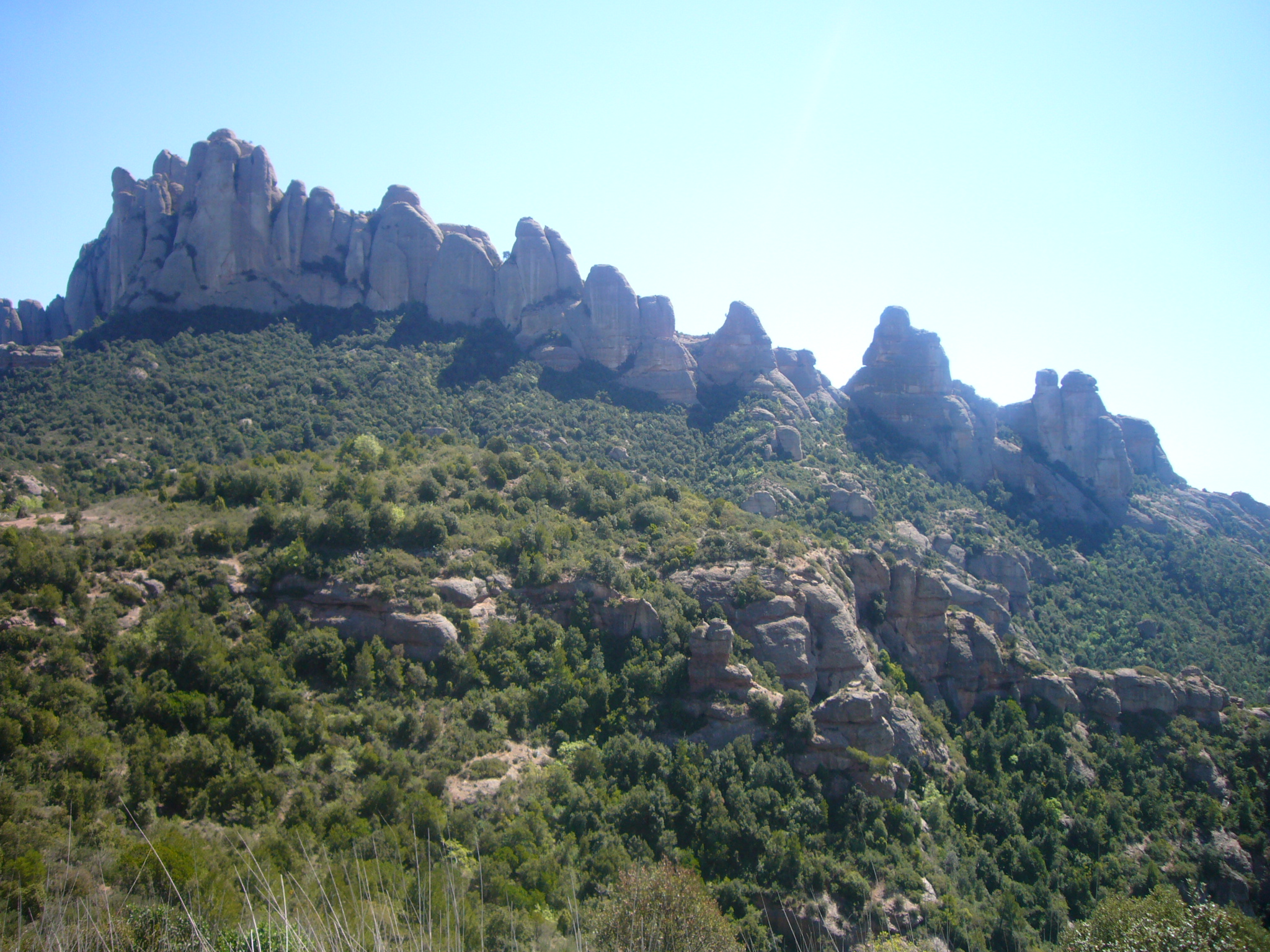 Les Agulles i Serrat de la Portella - vist des de Sant Pau Vell